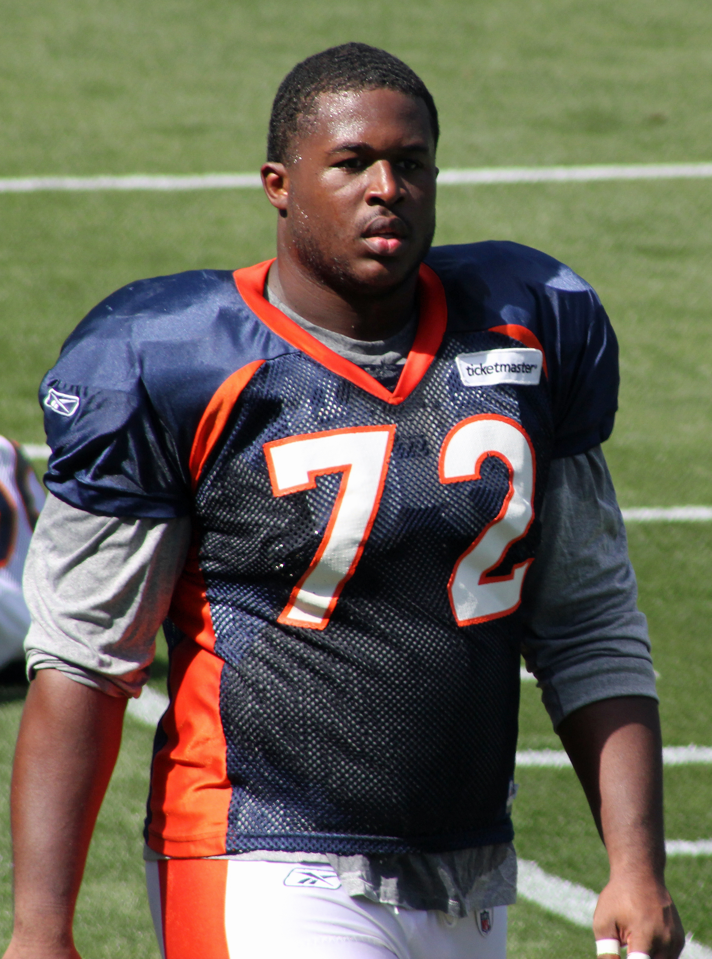 Herb Taylor, a National Football League player.